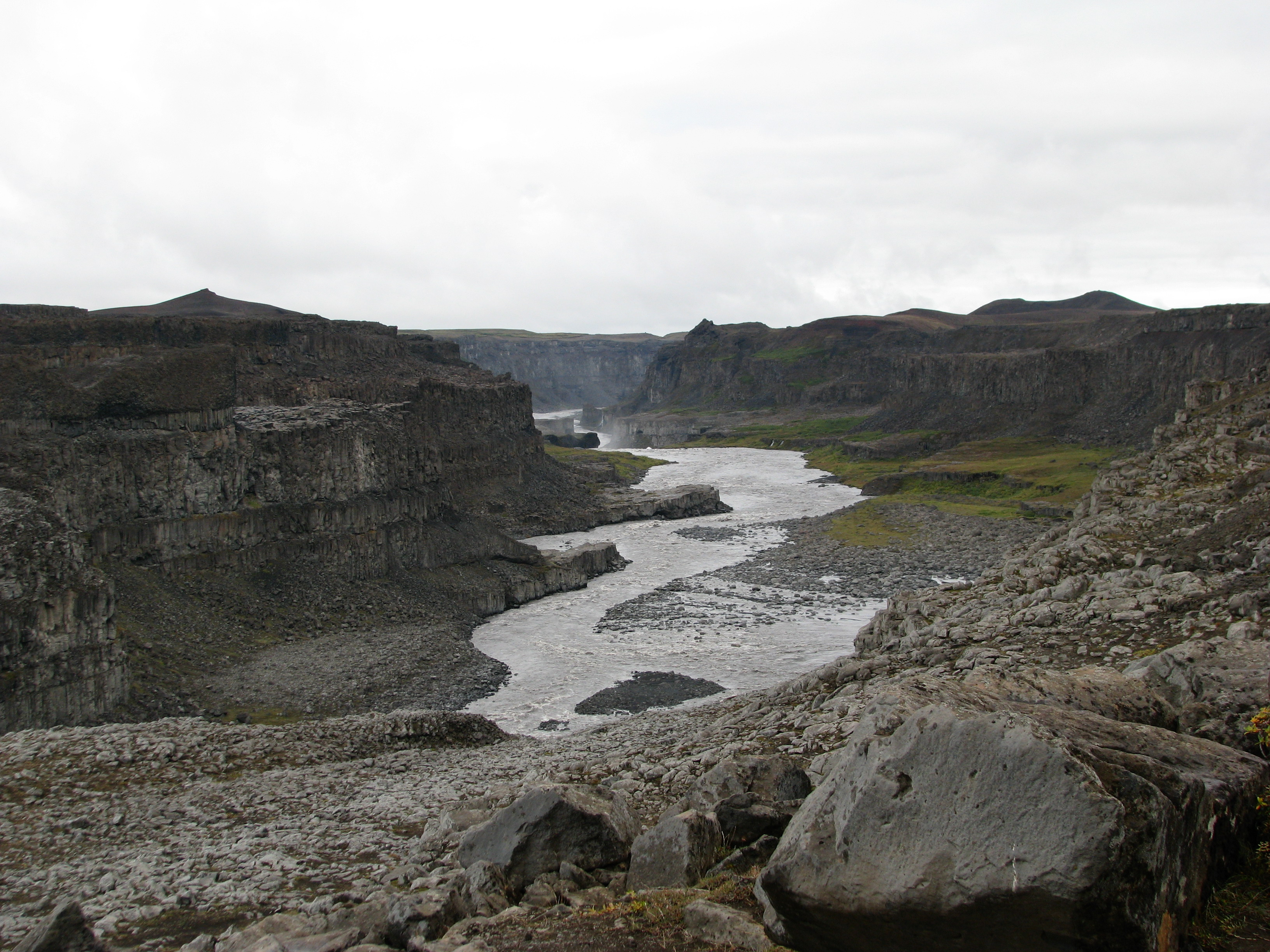 Jökulsá á Fjöllum, river, Iceland